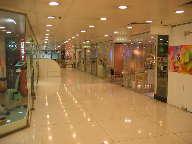 HK New Town Plaza Level 5 West Wing Before renovation